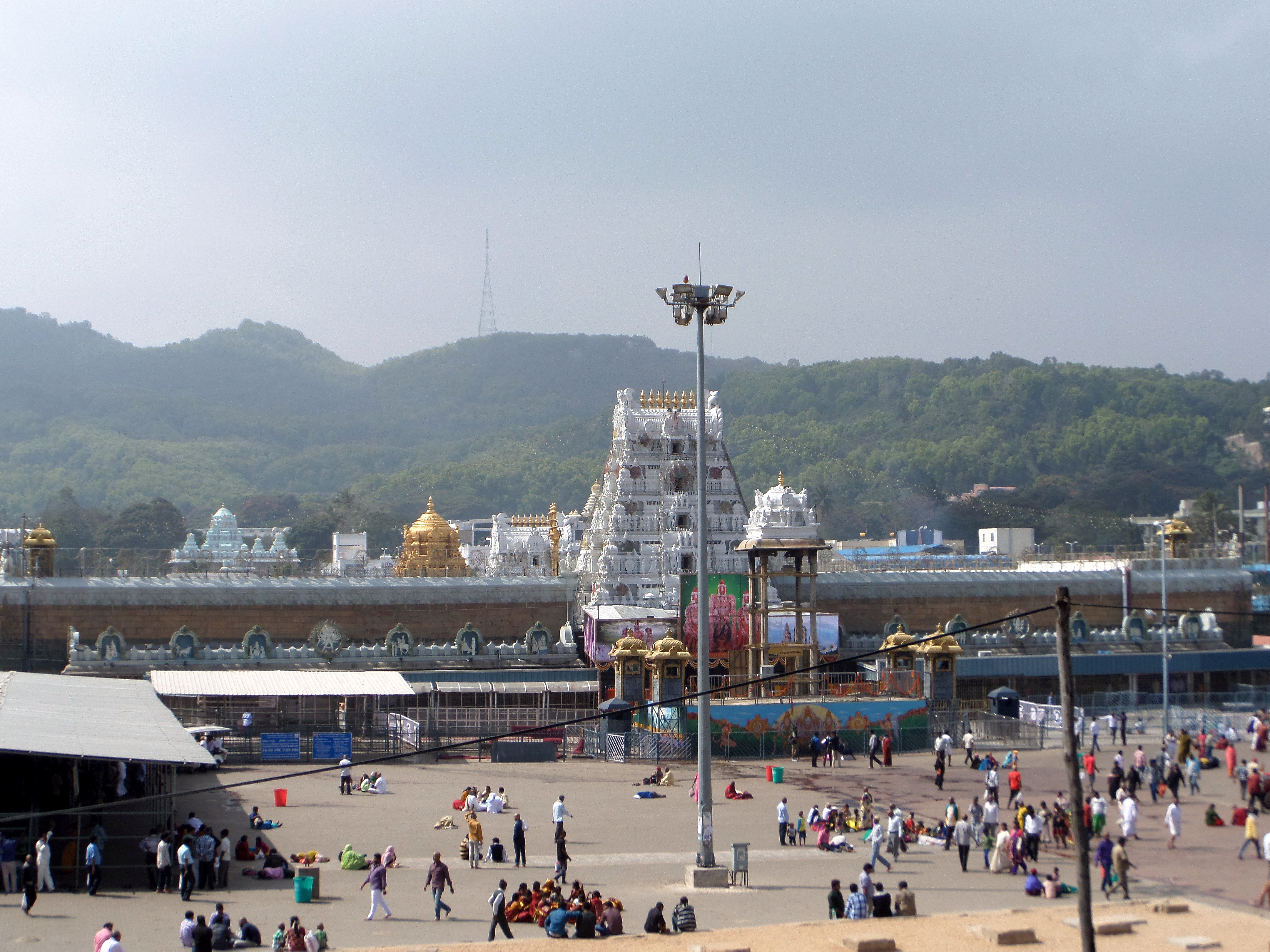 TIRUMALA TIRUPATI TEMPLE,ANDHRA PRADESH